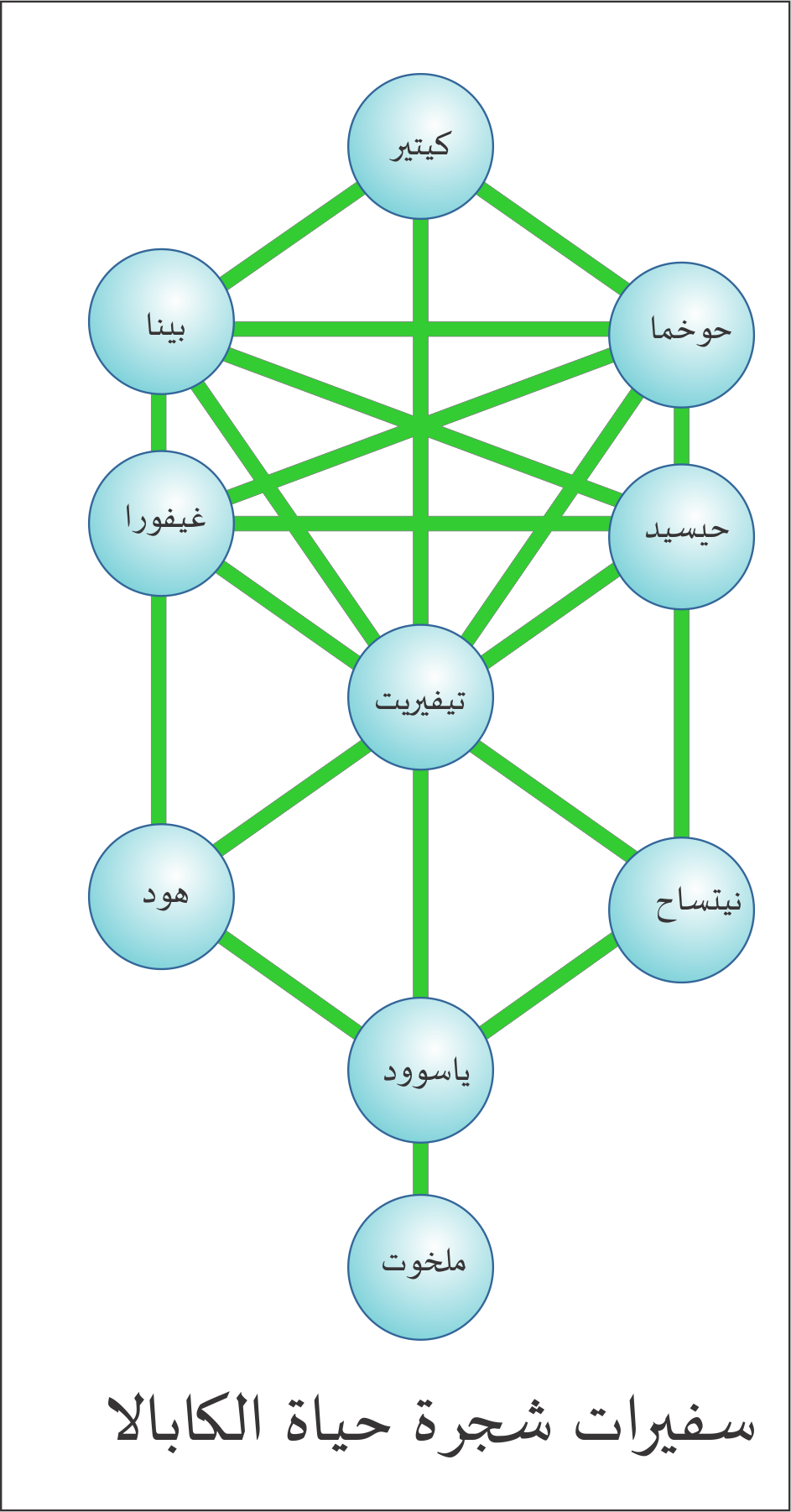 Kabbala Tree of Life in Arabic